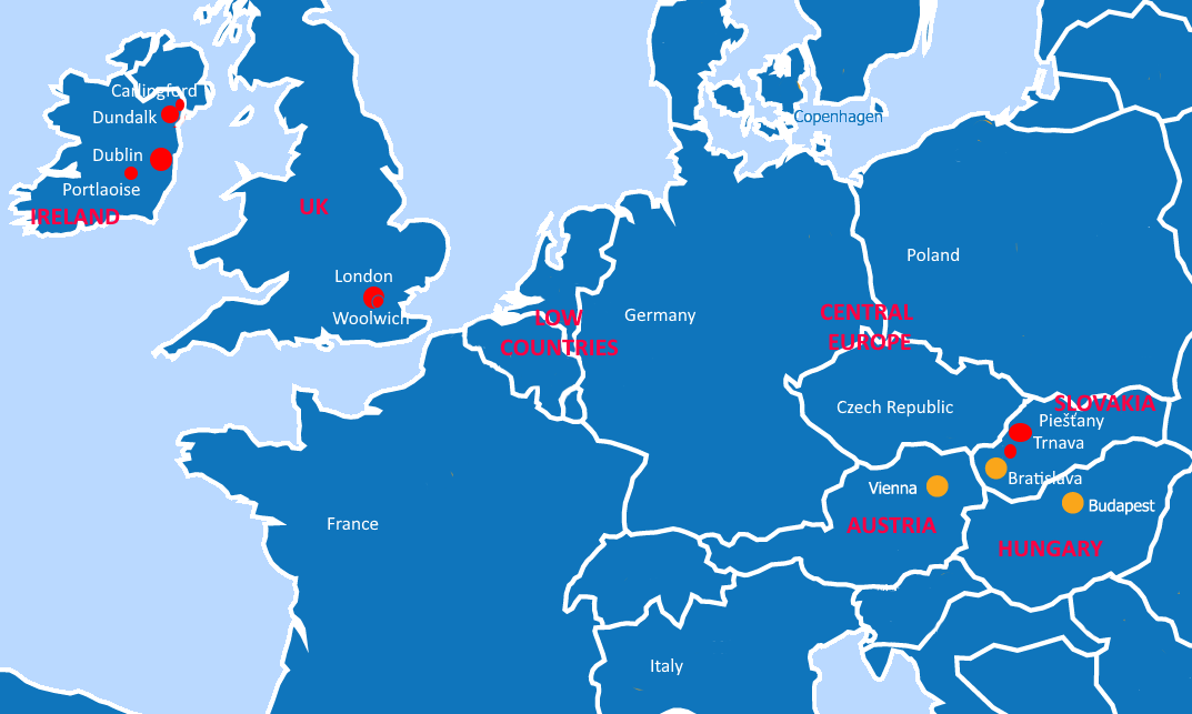 Illustration of the places that were part of Operation Samnite and resulted in the arrests of the Real IRA's "Slovak Three". The touched up map is based on File:BEST map of Europe with townnames.png (here